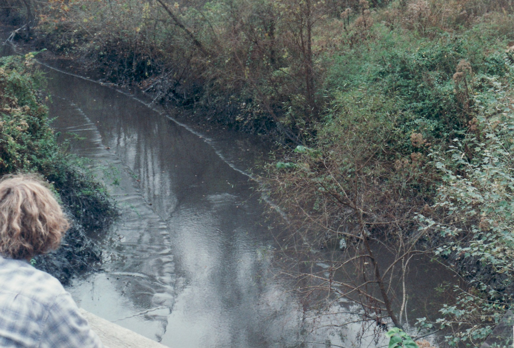 Photo by Dave Cooper, Oct 22 2000, Wolf Creek - the Martin County Coal Slurry Spill. Permission granted to use this photo by the photgrapher (me)